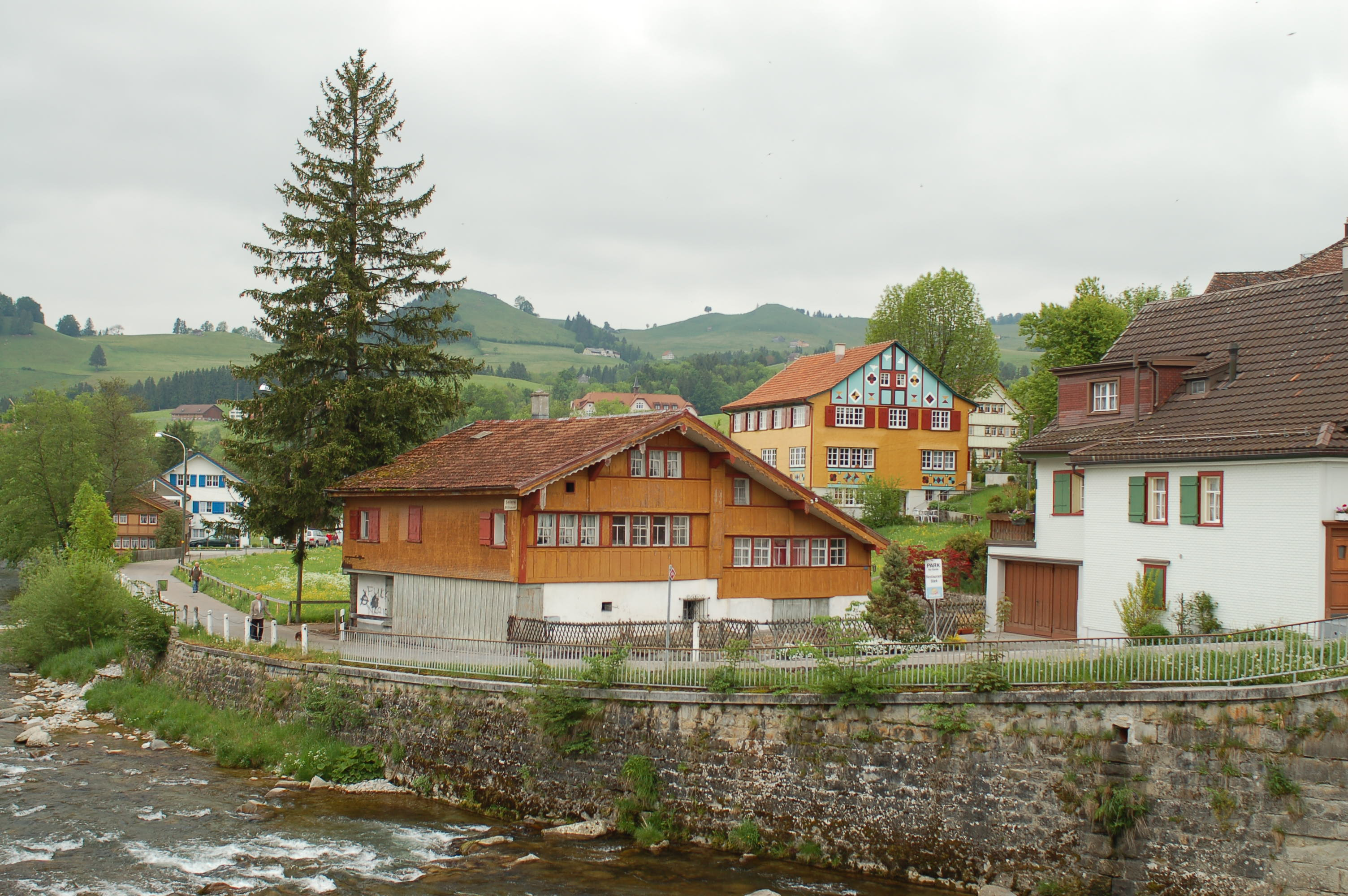 Town of Appenzell, capital of the canton of Appenzell Innerrhoden in Switzerland